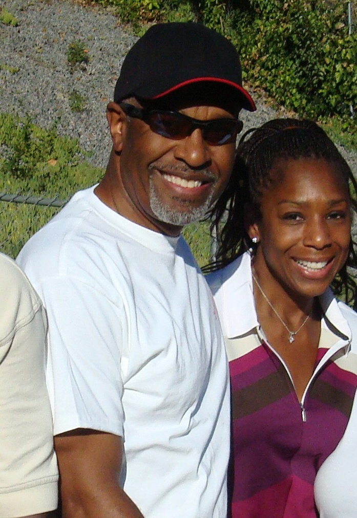 Actor James Pickens, Jr. (with actress Dawnn Lewis)